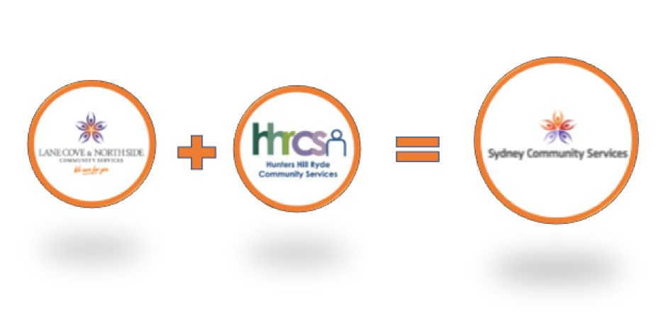 Sydney Community Services merger image - company logos